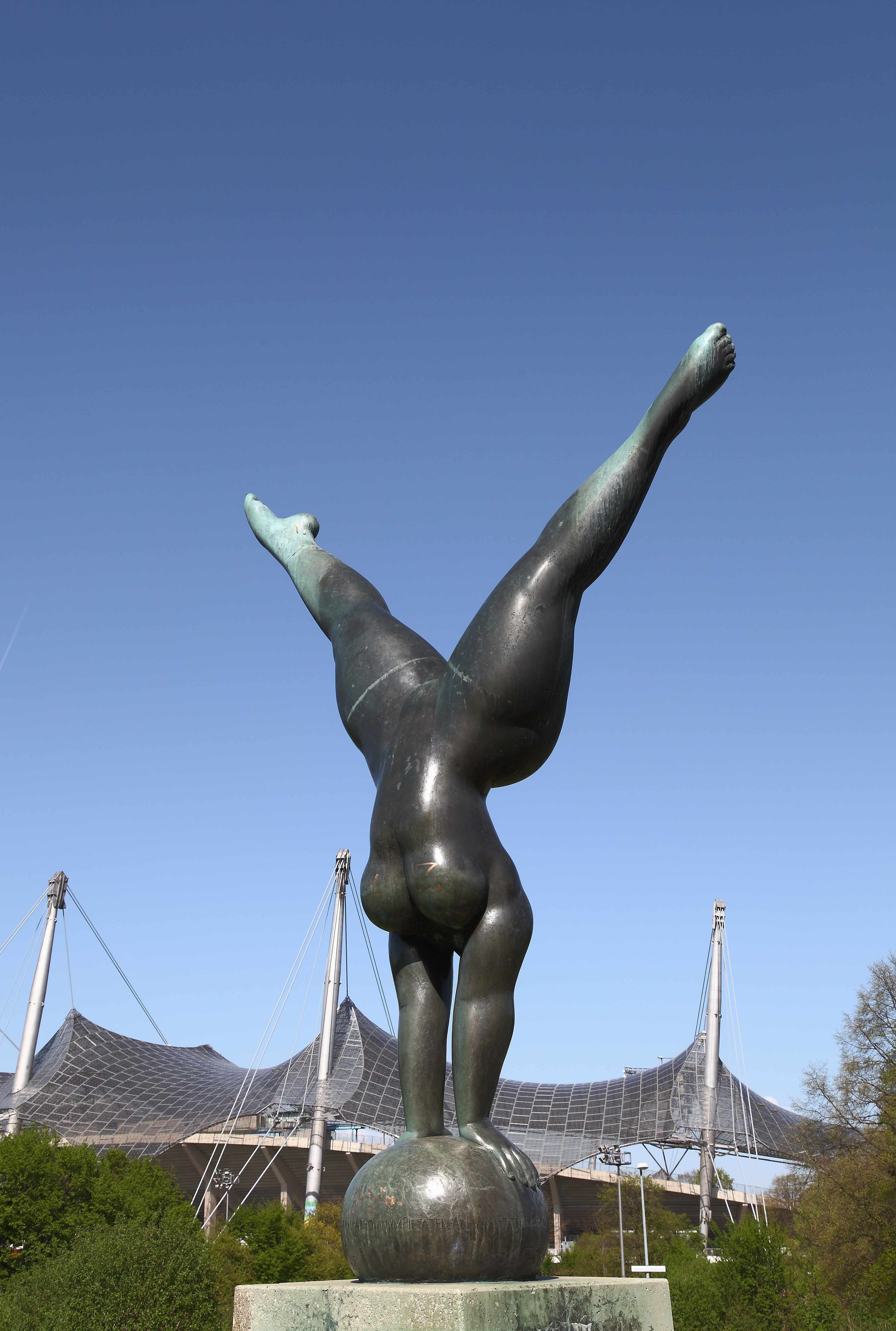 Bronze statue "Handstand einer Turnerin" (Martin Mayer, 1972), Olympiapark, Munich, Germany